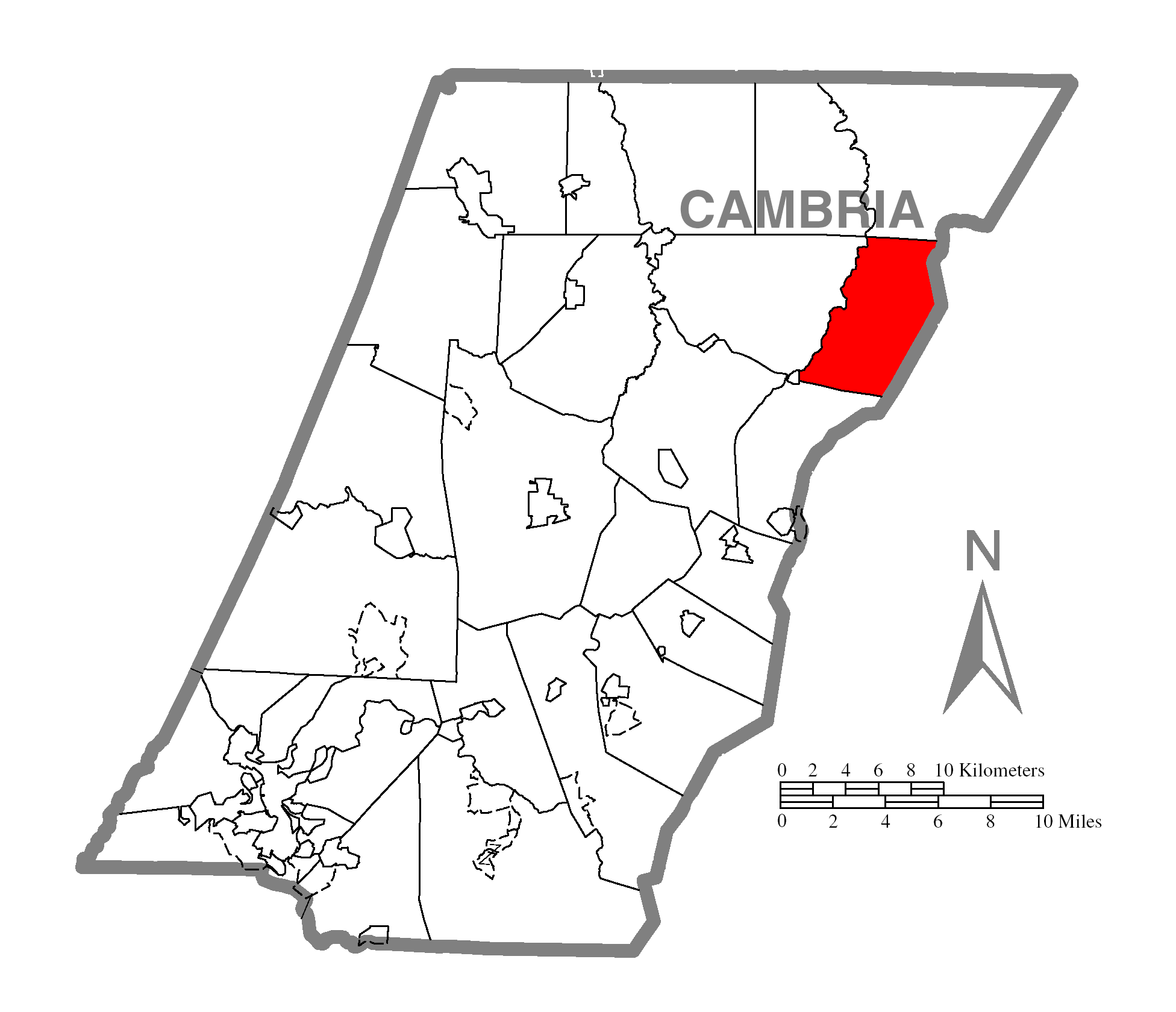 A map of Cambria County showing Dean Township, Pennsylvania (alternate) highlighted on the map.